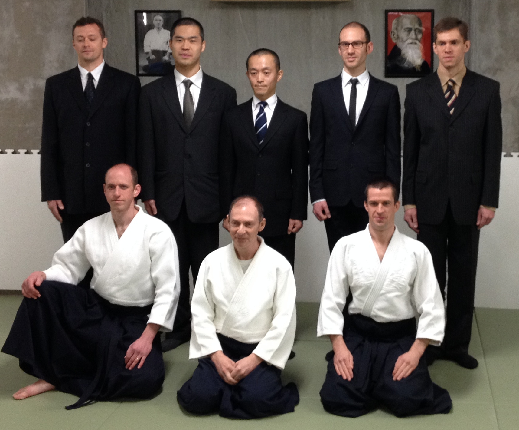 Photo taken March 30, 2014 of new students for 2014-15 Kenshusei Course at Mugenjuku. Standing (L-R) Scott Richards, Ryuji Kitamura, Jotaro Saegusa, Herve Laruelle, Alex Gusev. Sitting (L-R) Chris Crampton, Jacques Payet shihan, Andy Carter